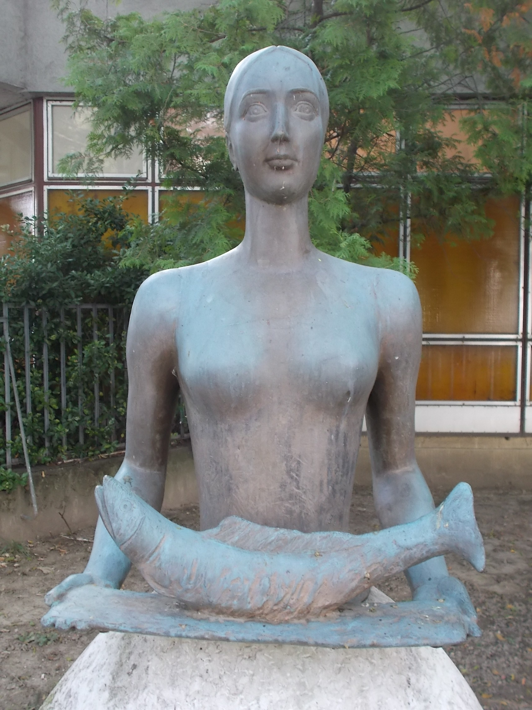 Damsel with dish at Keszthely Catering Vocational Grammar School, High School and Student housing. Entrance. - Mártírok útja, Keszthely, Zala County, Hungary.